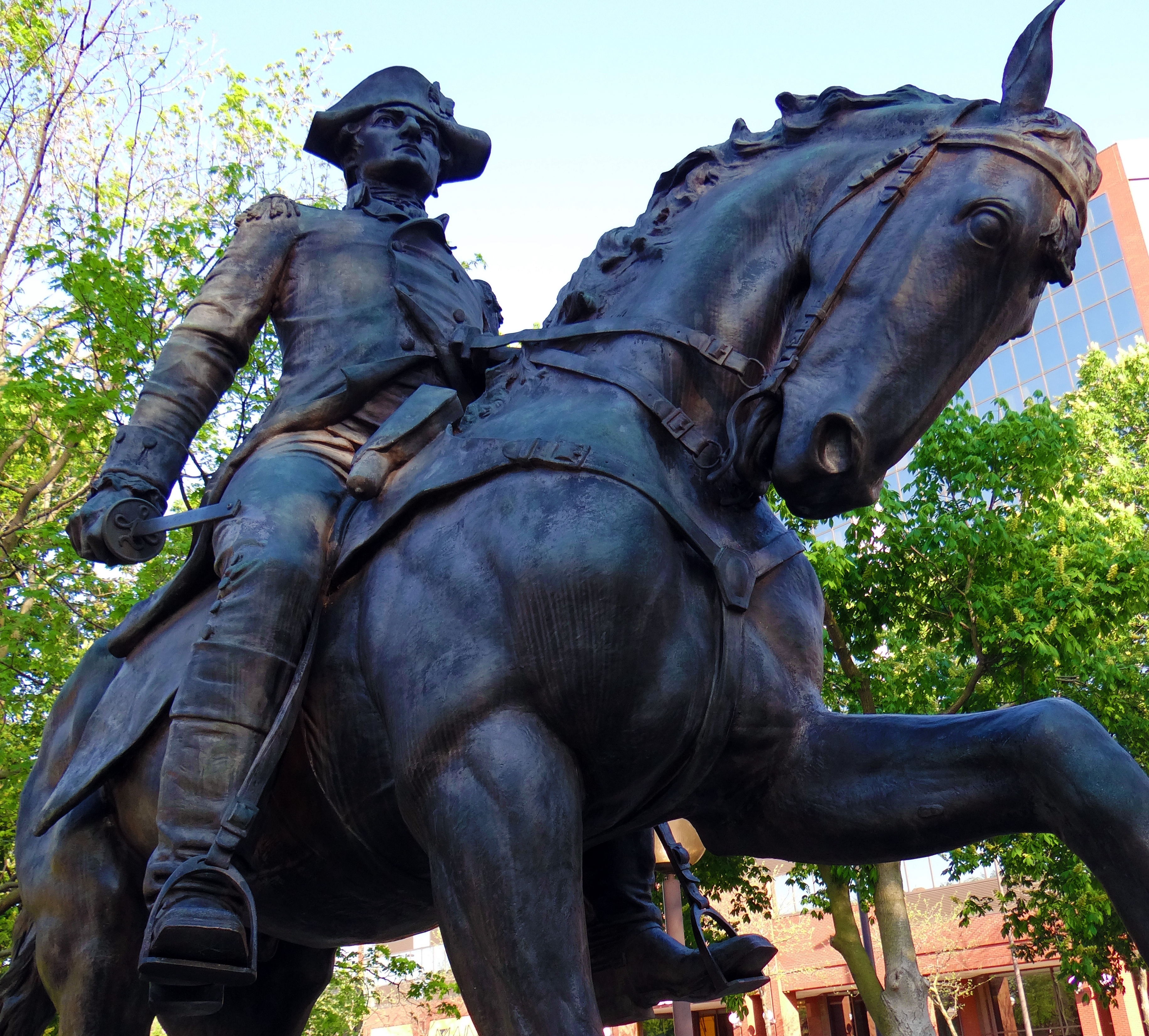 General "Mad" Anthony Wayne statue is located in Freimann Square in Fort Wayne, Indiana. The bronze equestrian statue was sculpted by George Etienne Ganiere in 1918.